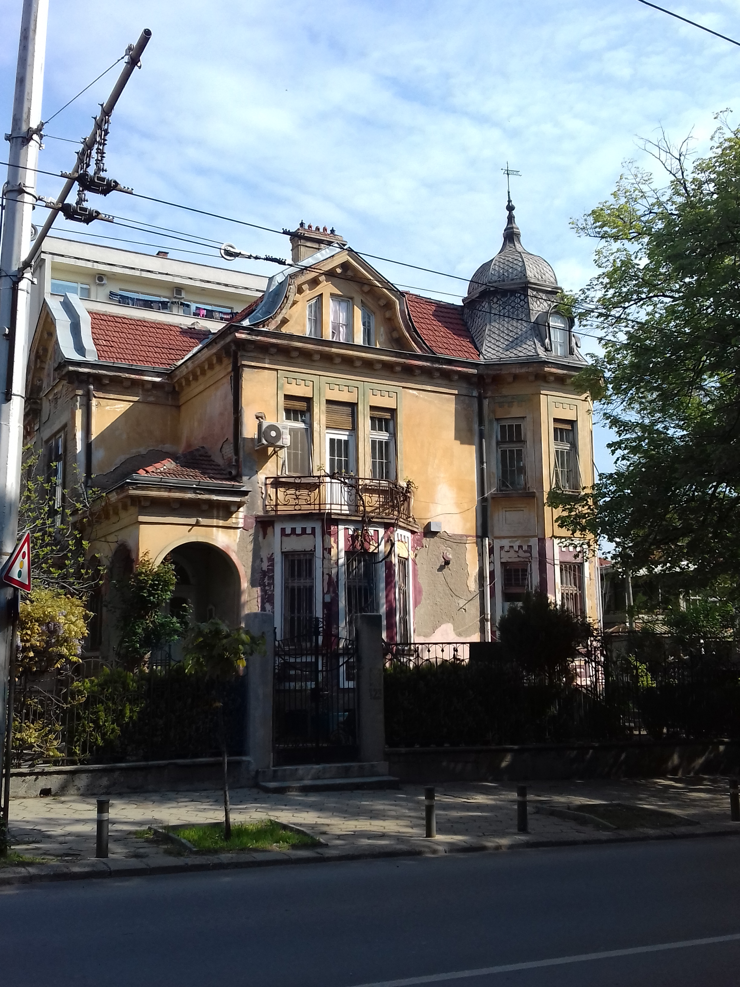 Nacho Koev house in Stara Zagora, Bulgaria.